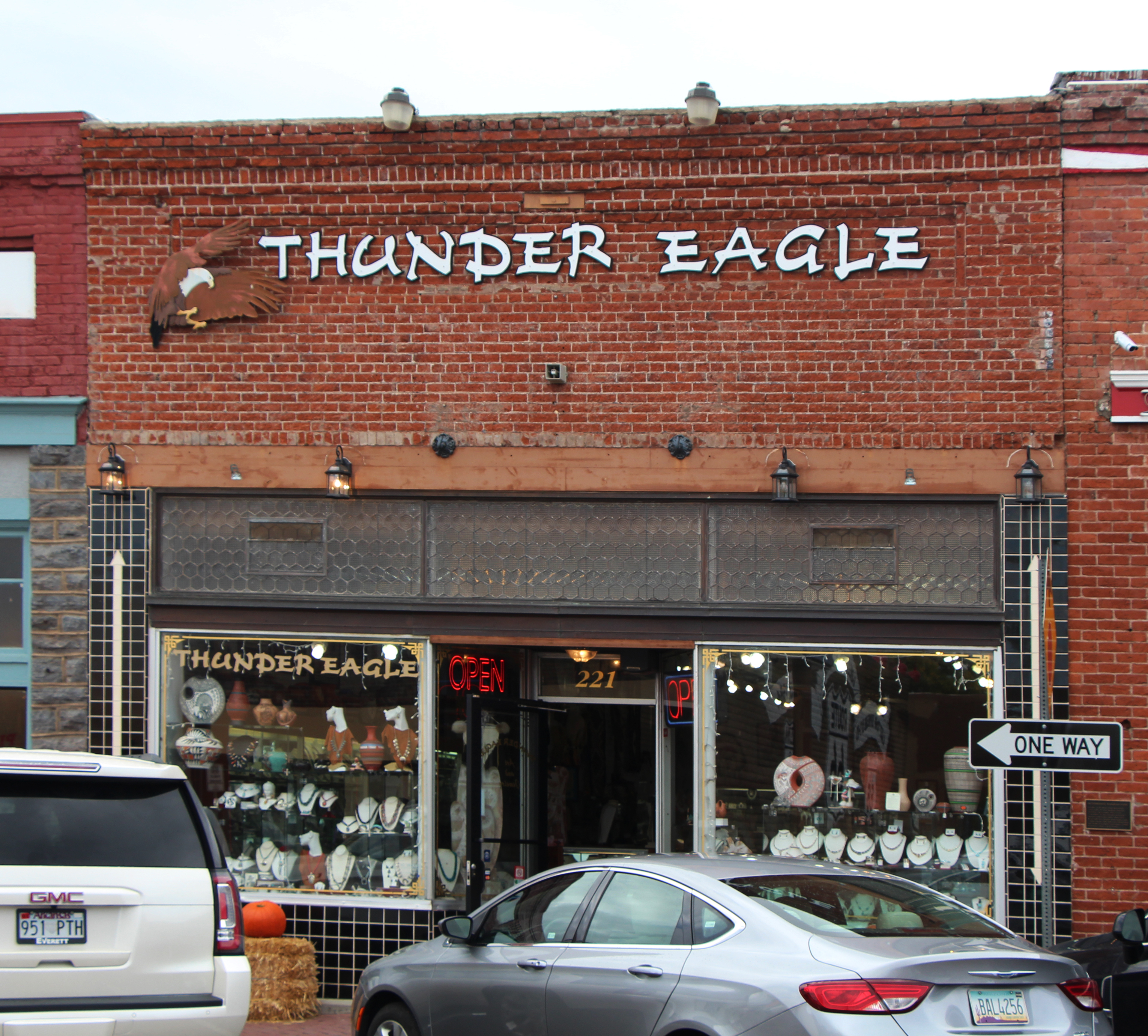 Grand Canyon Drug Company, 221 W. Route 66, Williams, AZ